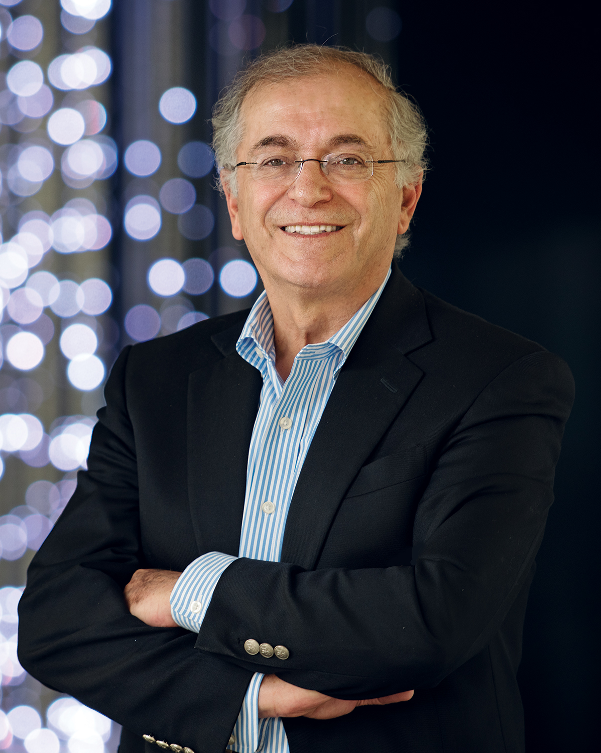 Charles Elachi, Ph.D., planetary scientist at the California Institute of Technology and director of NASA's Jet Propulsion Laboratory from 2001 to 2016.